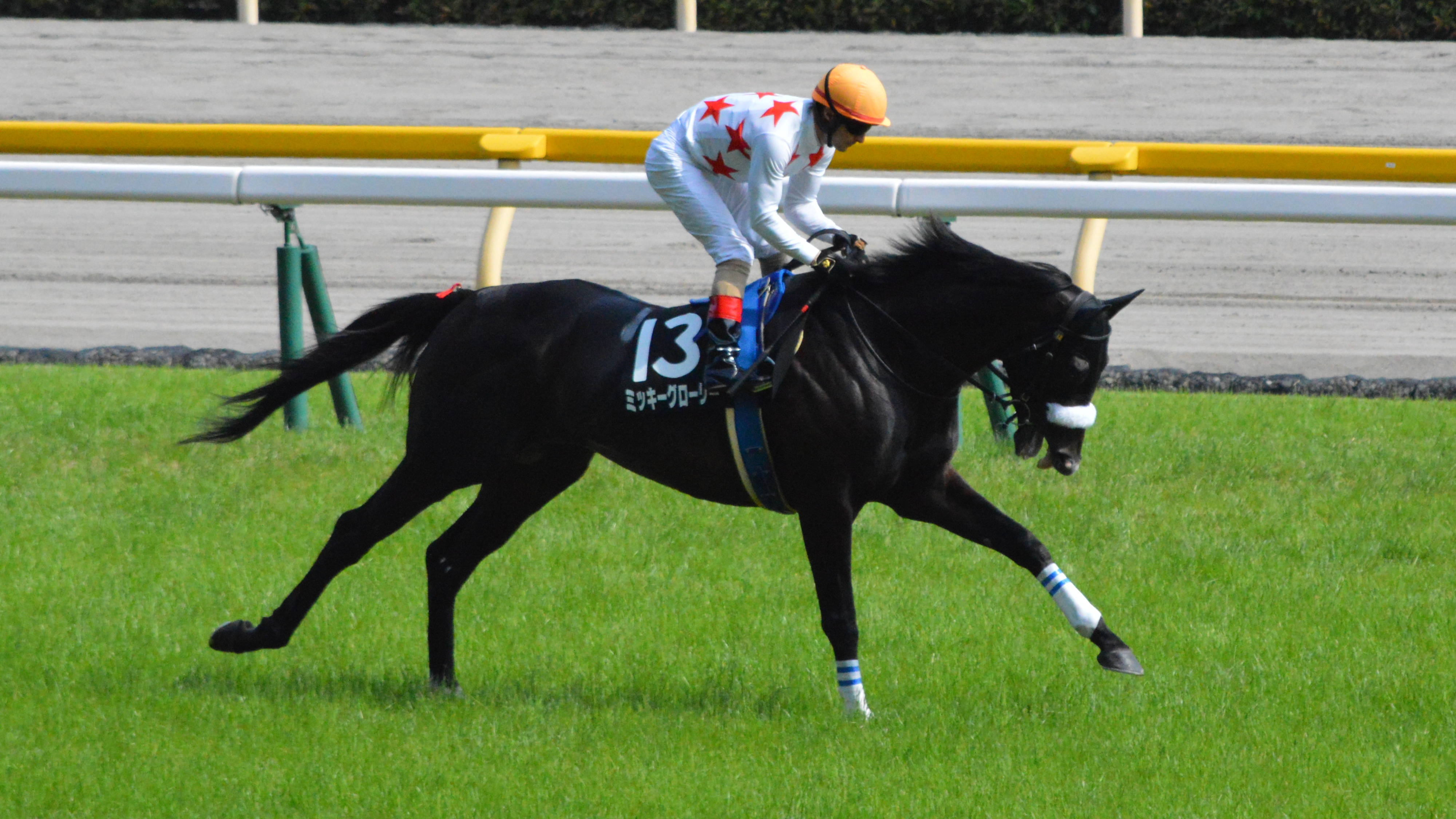 Japanese race horse Mikki Glory at Tokyo racecourse.